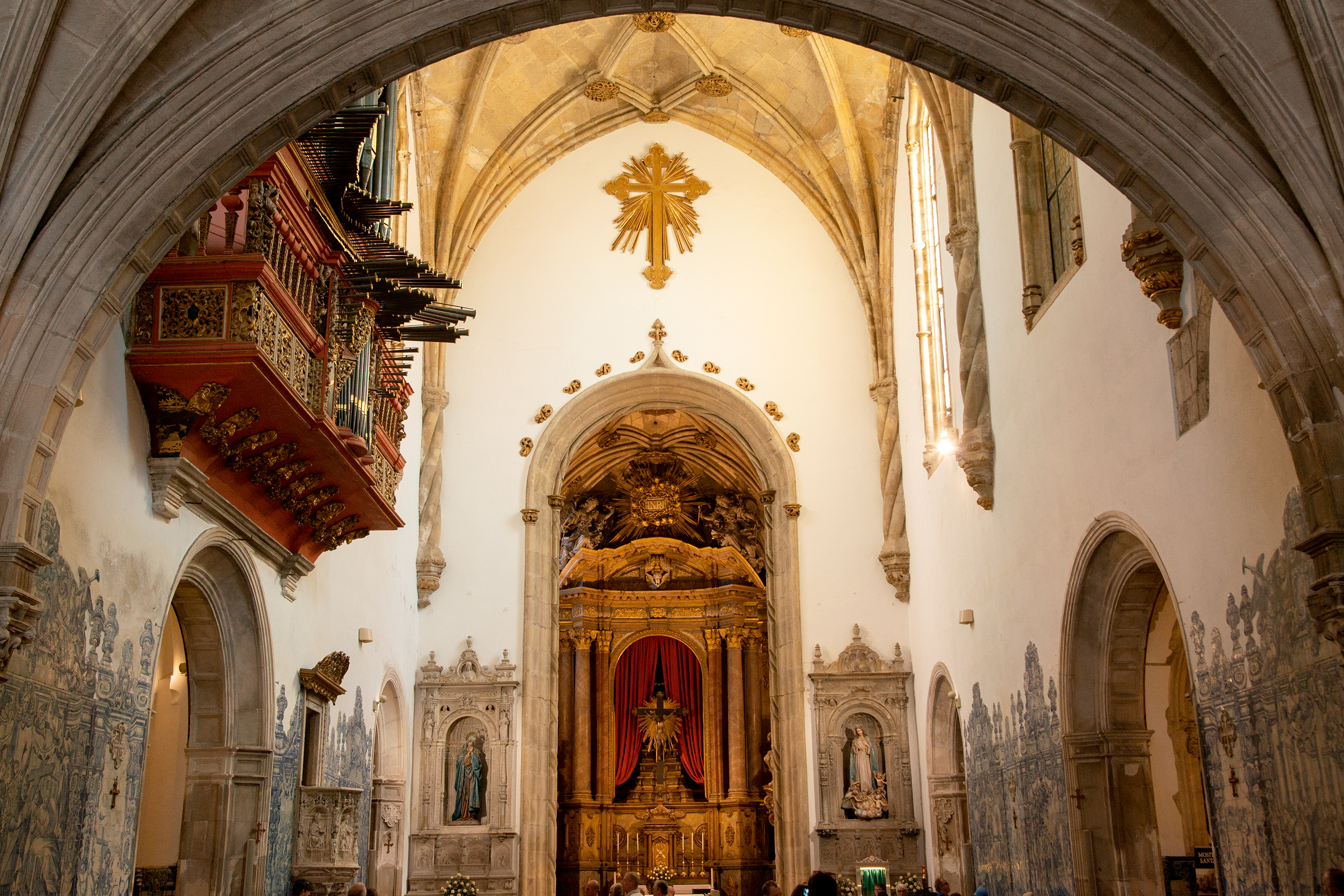 Church of São Bartolomeu (Coimbra), interior (2019 photo)